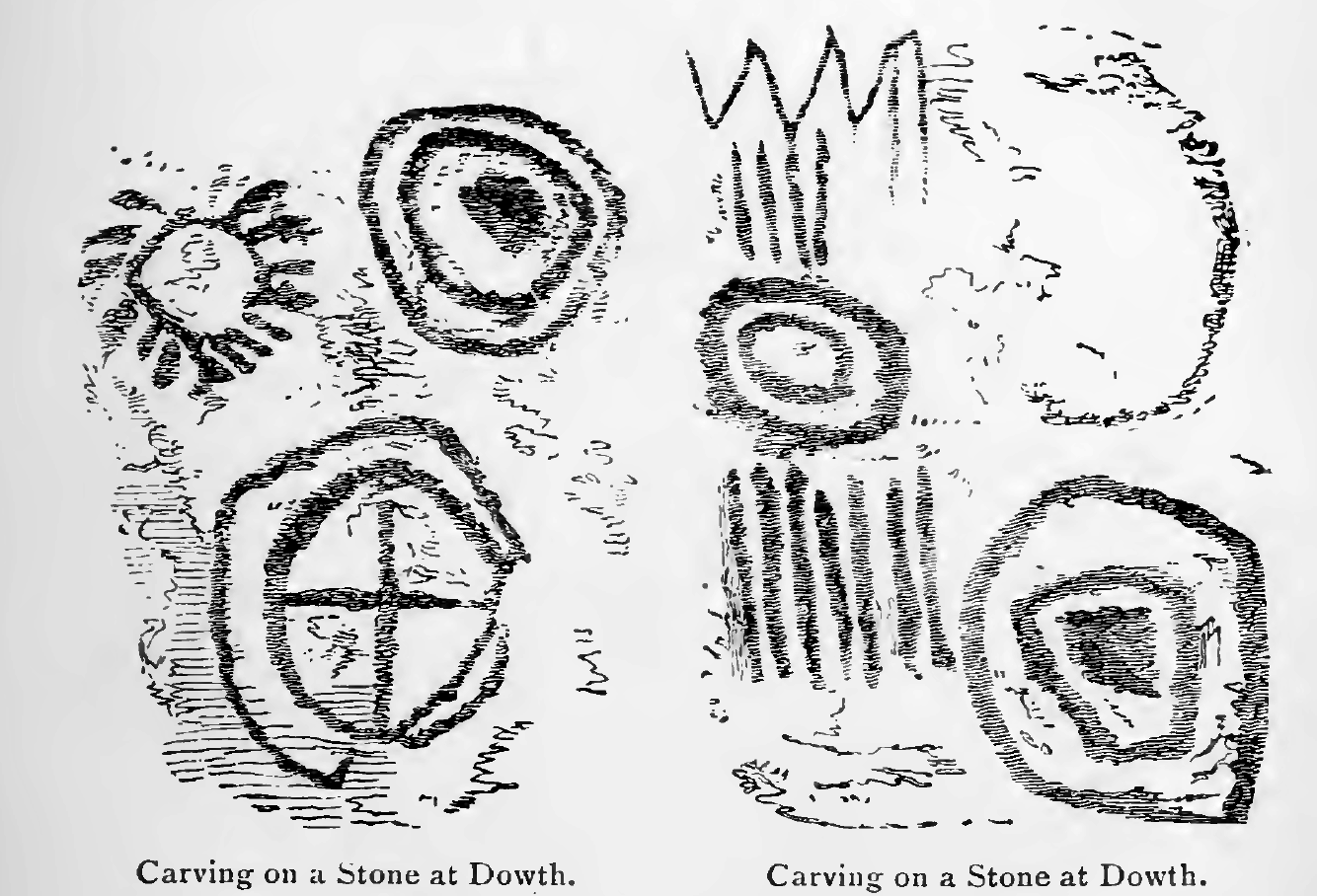 Sketch of stone carvings from Dowth.